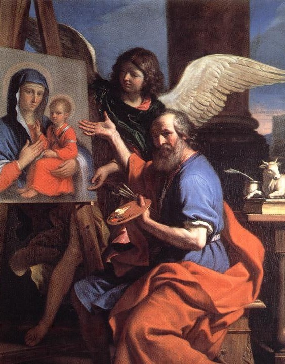 Saint Luke Displaying a Painting of the Virgin